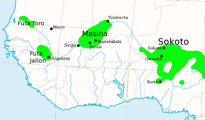 I made this, using the commons' Image:Africa_map_blank.svg as a template. Shows the major Fula / Fulani /Peul Jihad states of West Africa, circa 1830, prior to the rise of Umar Tall.